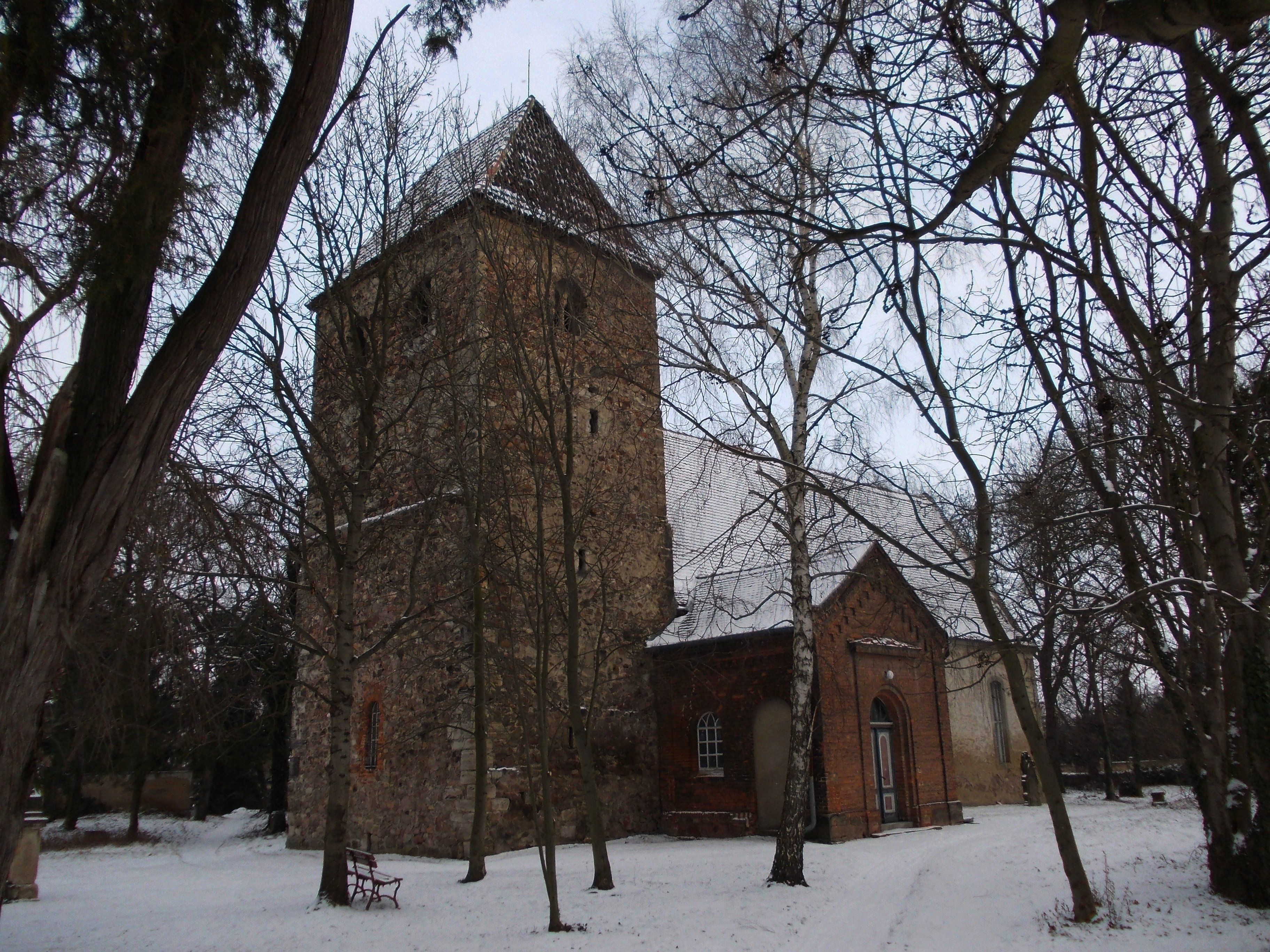 St. Gertrude's Church in Reideburg (Halle/Saale, Saxony-Anhalt) from the south-west